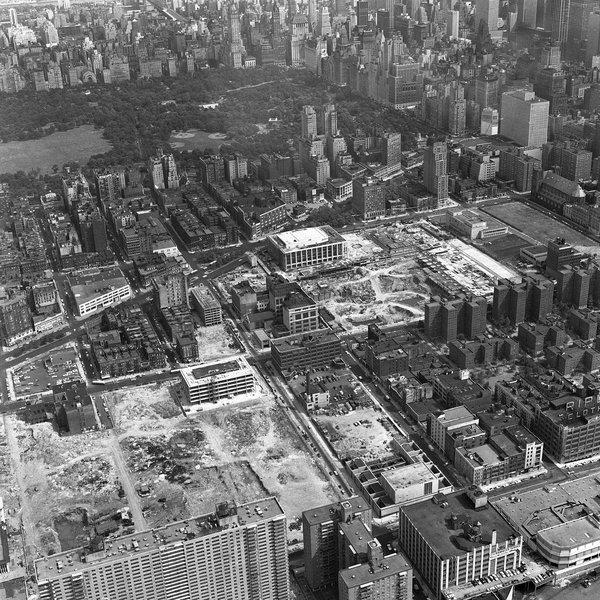 Shows the demolition of the neighborhood of San Juan Hill and the construction of Lincoln Center from an aerial view